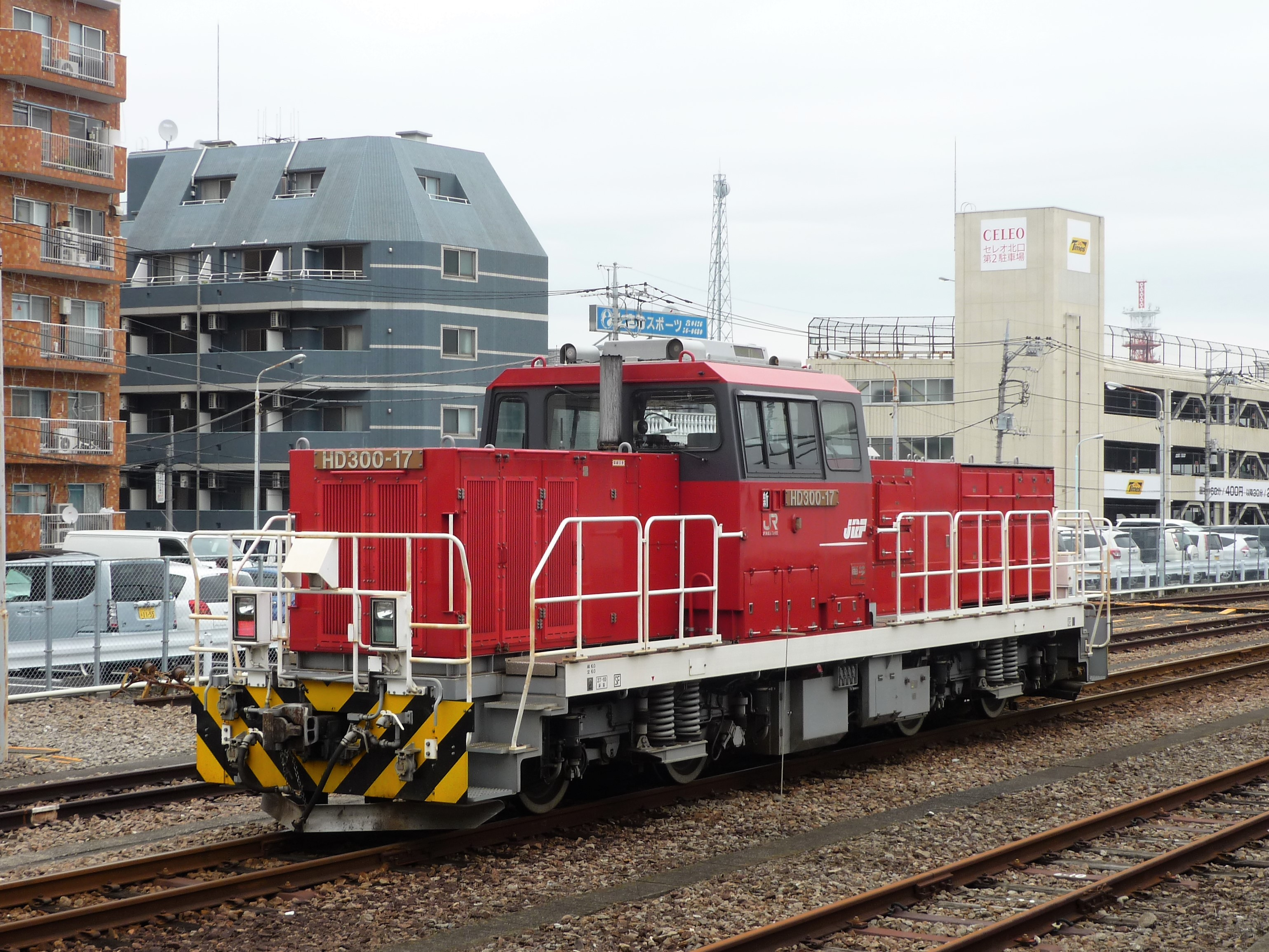 JR Freight Class HD300 hybrid diesel locomotive HD300-17 at Hachioji Station in Tokyo, Japan